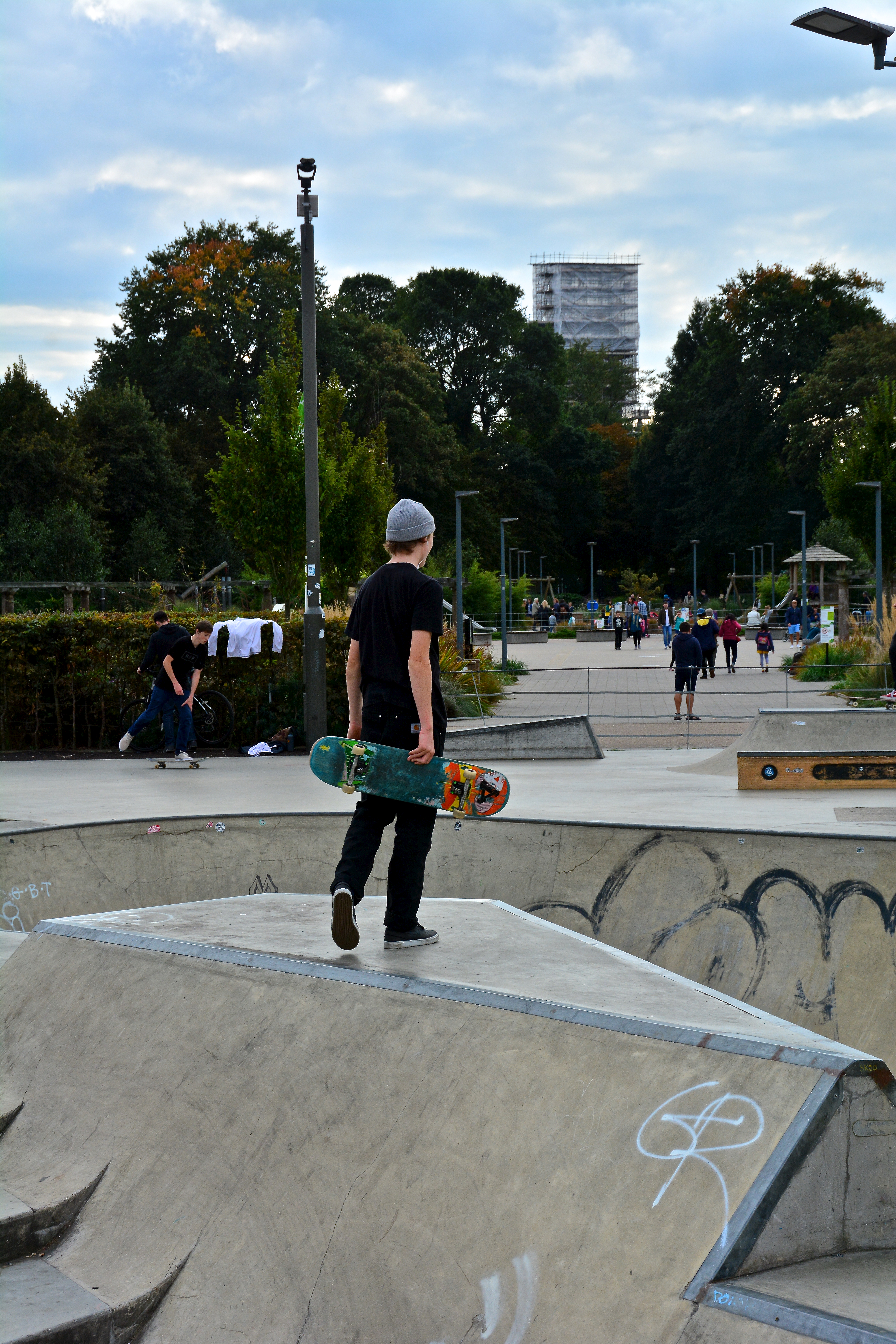 Brighton Trip 8-10-2016